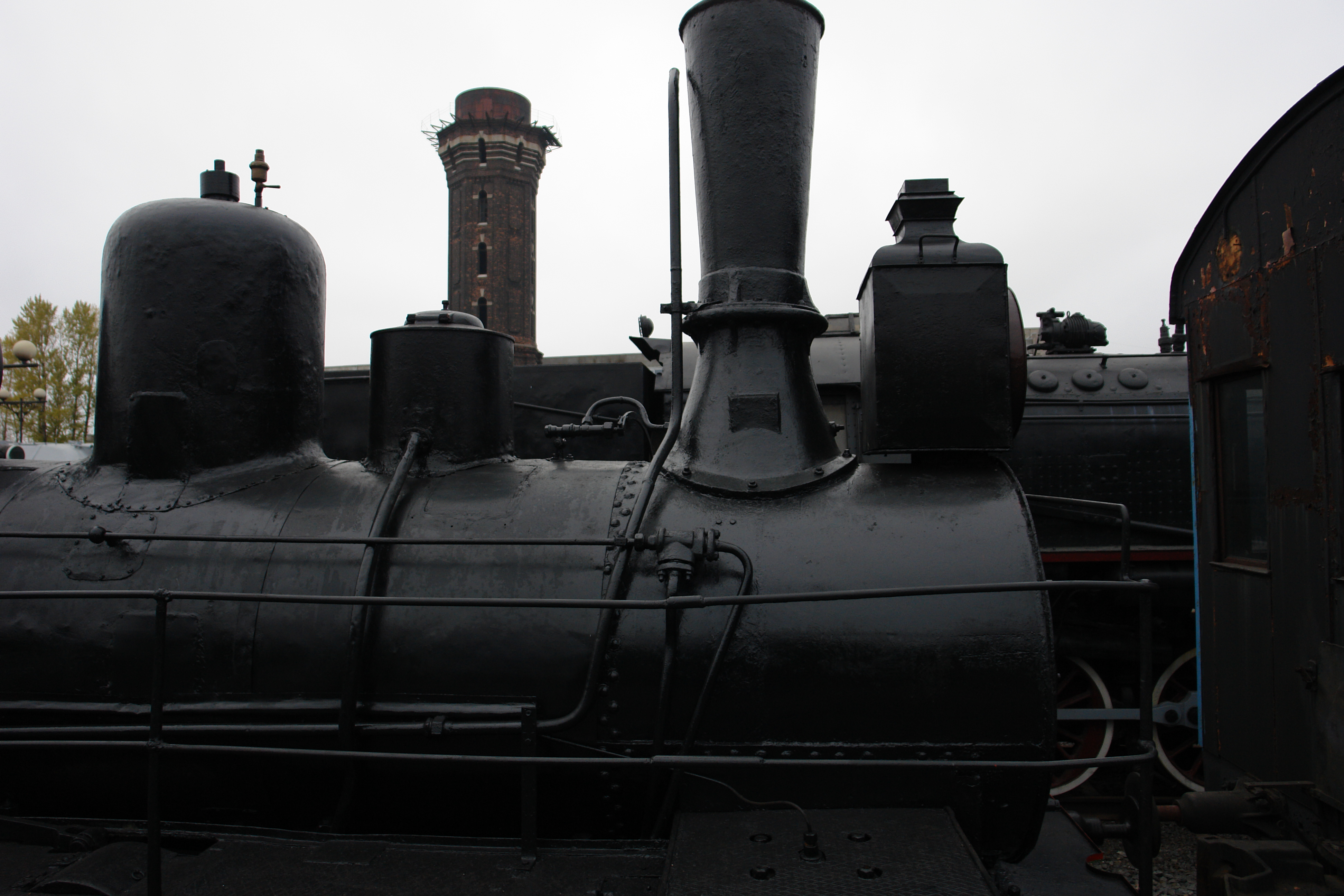 Steam locomotive OD 1080 (no additional information avaible)